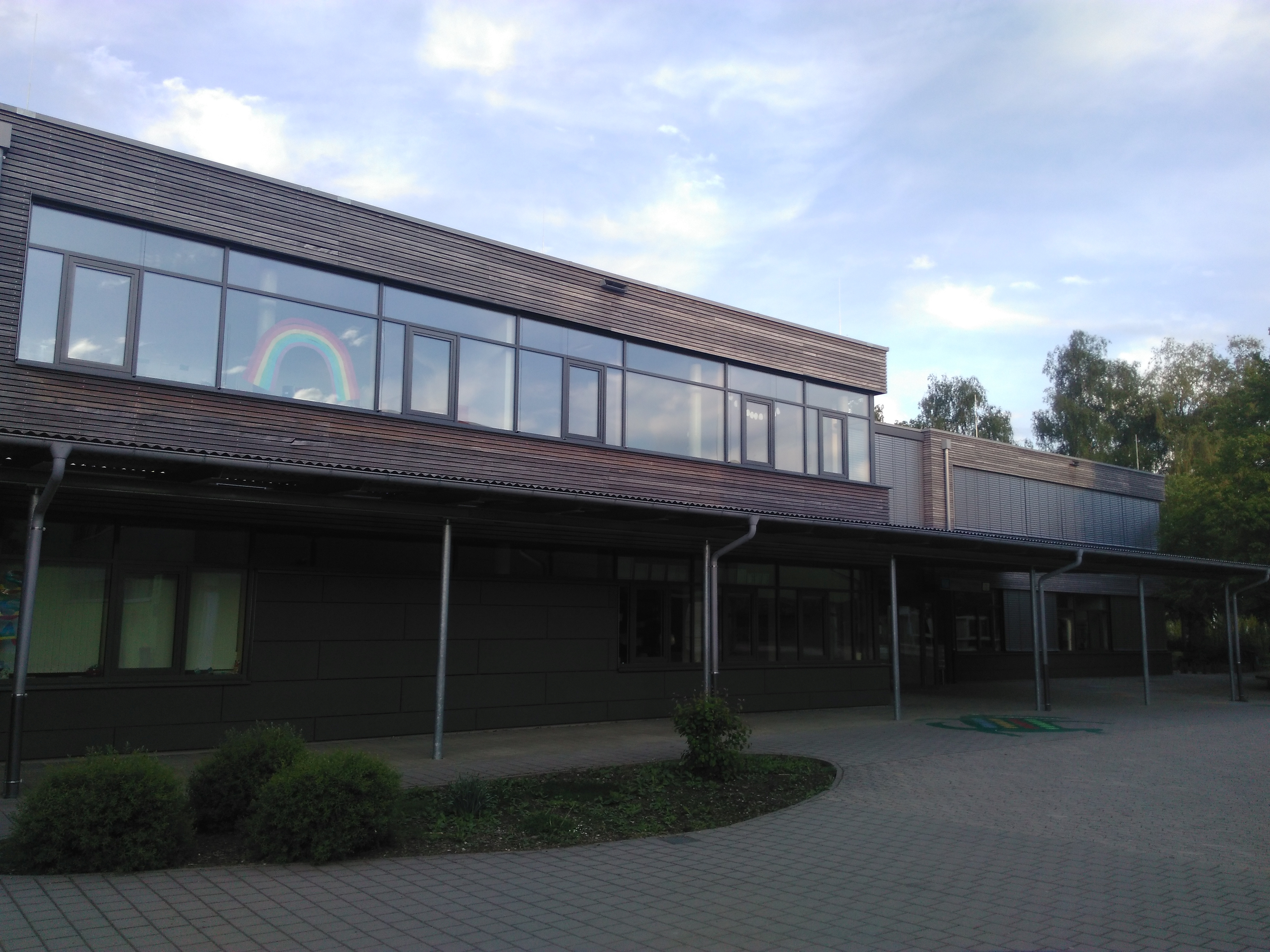 Astrid-Lindgren-School, Mengen, Germany